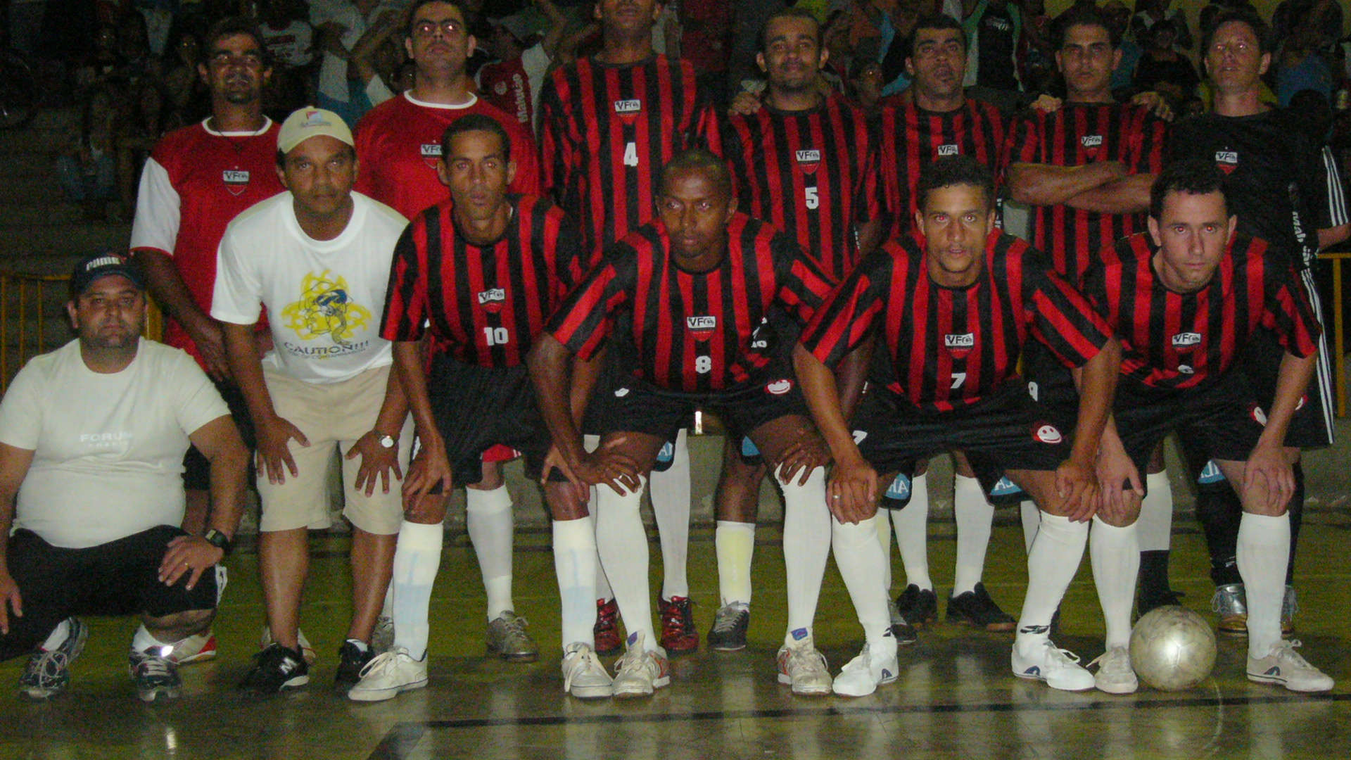 Vilense, Futsal Gold Cup Champion 2006